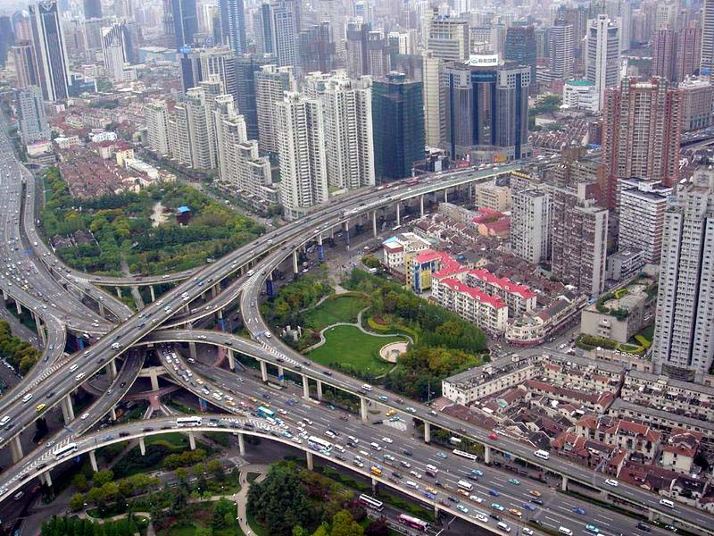 Viaduct in Puxi, Shanghai It's a viaduct-complex in Puxi, Shanghai, PRC. Several stem roads (e.g. Yan'an Road) are also included.